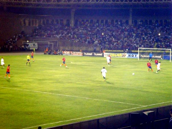 August 22, 2007, Armenia-Portugal UEFA qualifying match in Yerevan, Armenia.